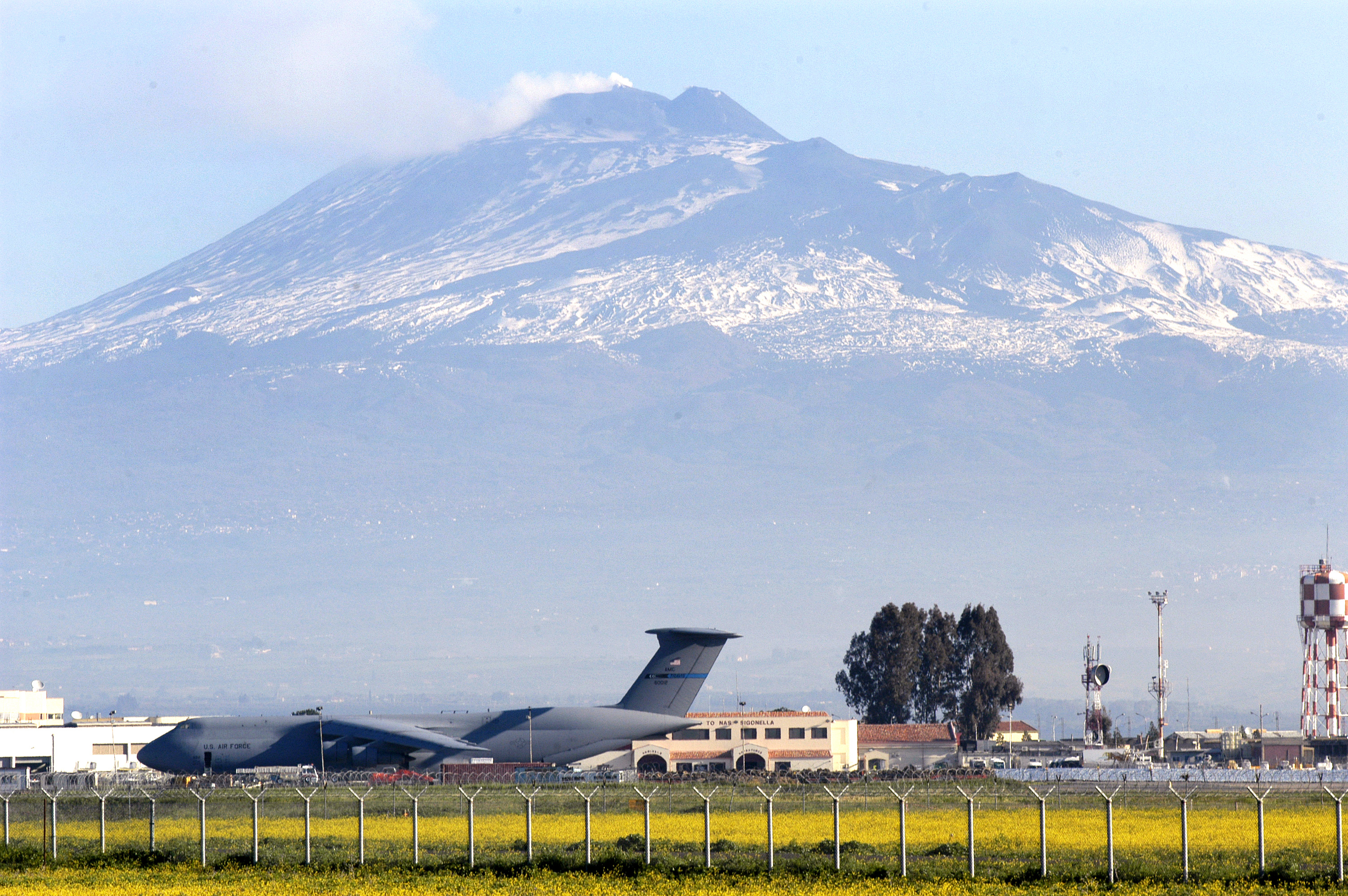 Naval Air Station Sigonella, Sicily (Mar. 25, 2003) -- Sicily's volcano, Mt. Etna, is the backdrop for a U.S. Air Force C-5 "Galaxy" and the air terminal of Italian Air Force base, and Naval Air Station (NAS) Sigonella. NAS Sigonella provides logistical support for Sixth Fleet and NATO forces in the Mediterranean Sea. U.S. Navy photo by Photographer's Mate 2nd Class Damon J. Moritz. (RELEASED)